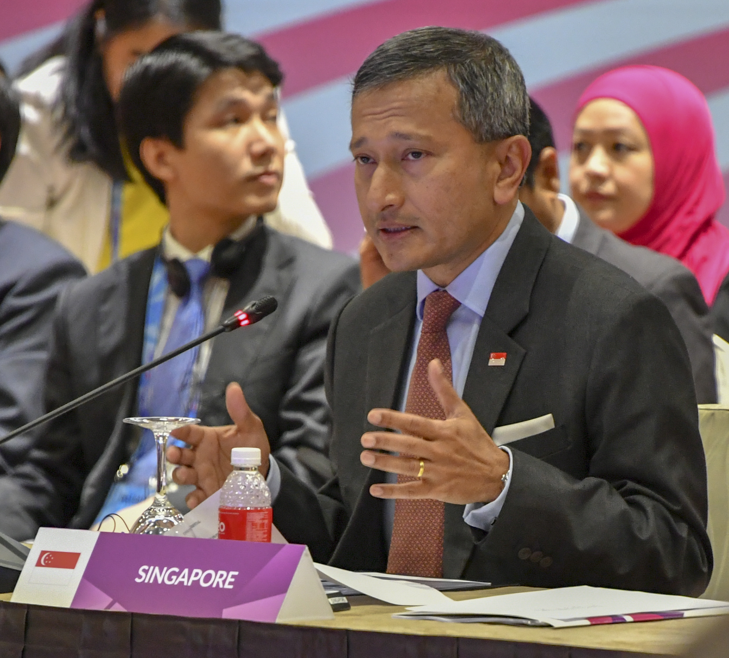 Singapore Foreign Minister Vivian Balakrishnan speaks at the East Asia Summit (EAS) Foreign Ministers Meeting in Singapore, Singapore, August 4, 2018. [State Department Photo / Public Domain]